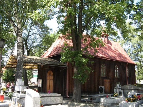 St. Helena Church in Nowy Sącz, PL